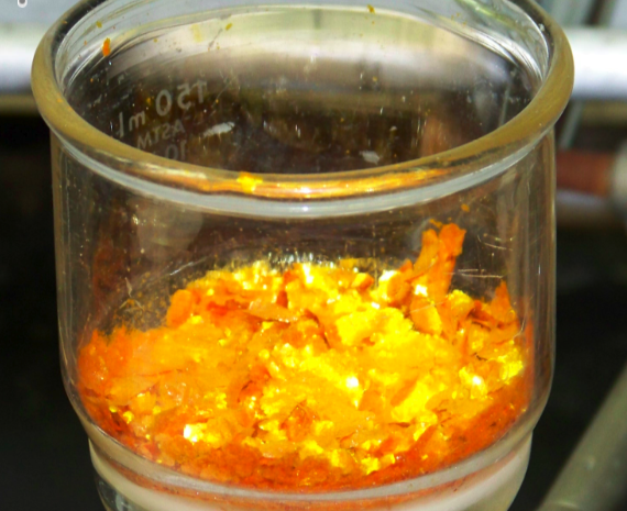 Sample of Fe2(CO)9 on sintered glass filter funnel